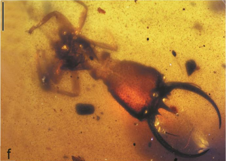 Supplementary Figure 1. Diversity of the larvae of Myrmeleontiformia in mid-Cretaceous Burmese amber. F) Acanthopsichops triaina, holotype AMNH JCZ-Bu404: habitus, dorsal view. Scale bar: 0.5 mm.